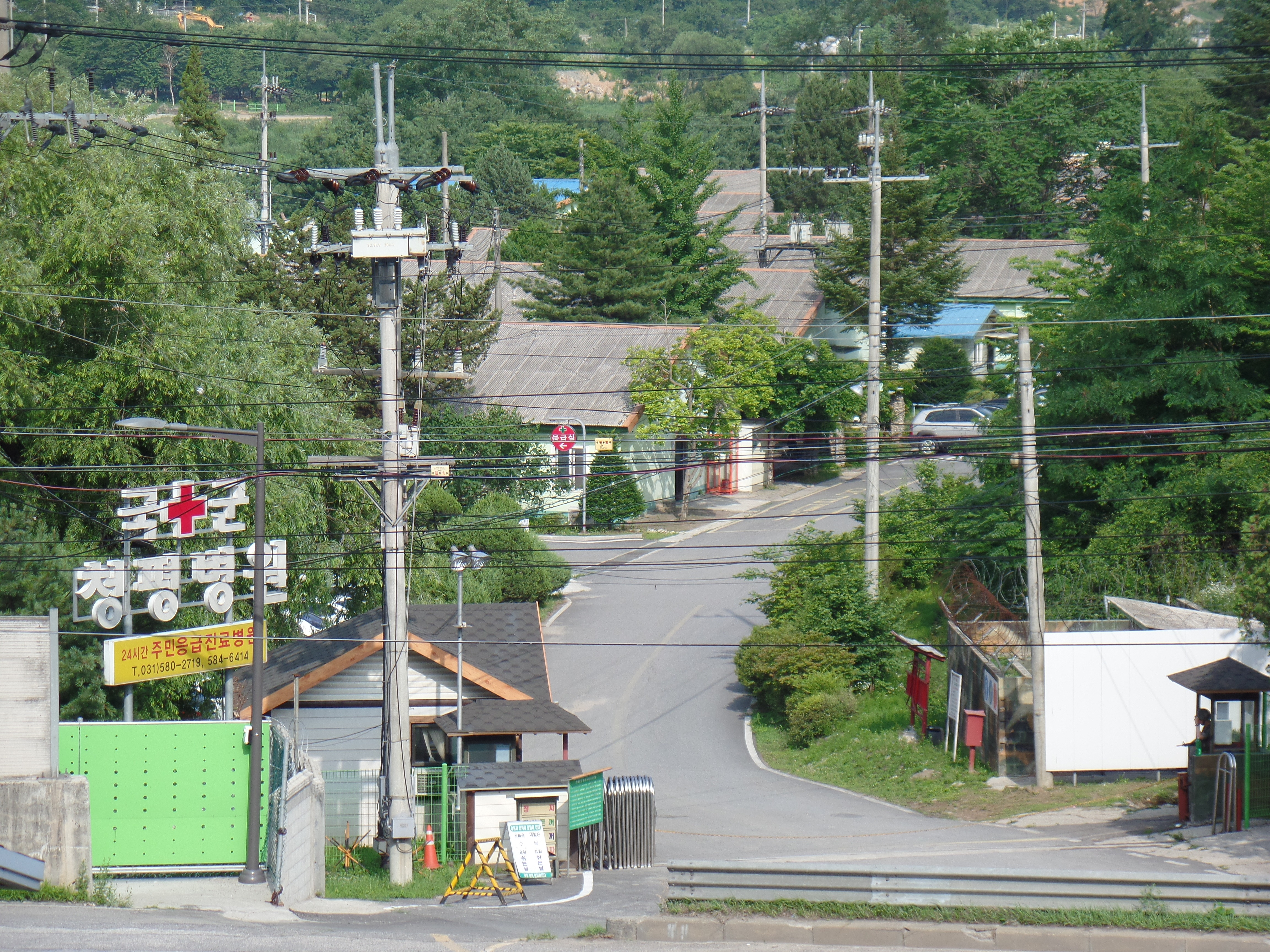 대한민국 국군청평병원의 정문